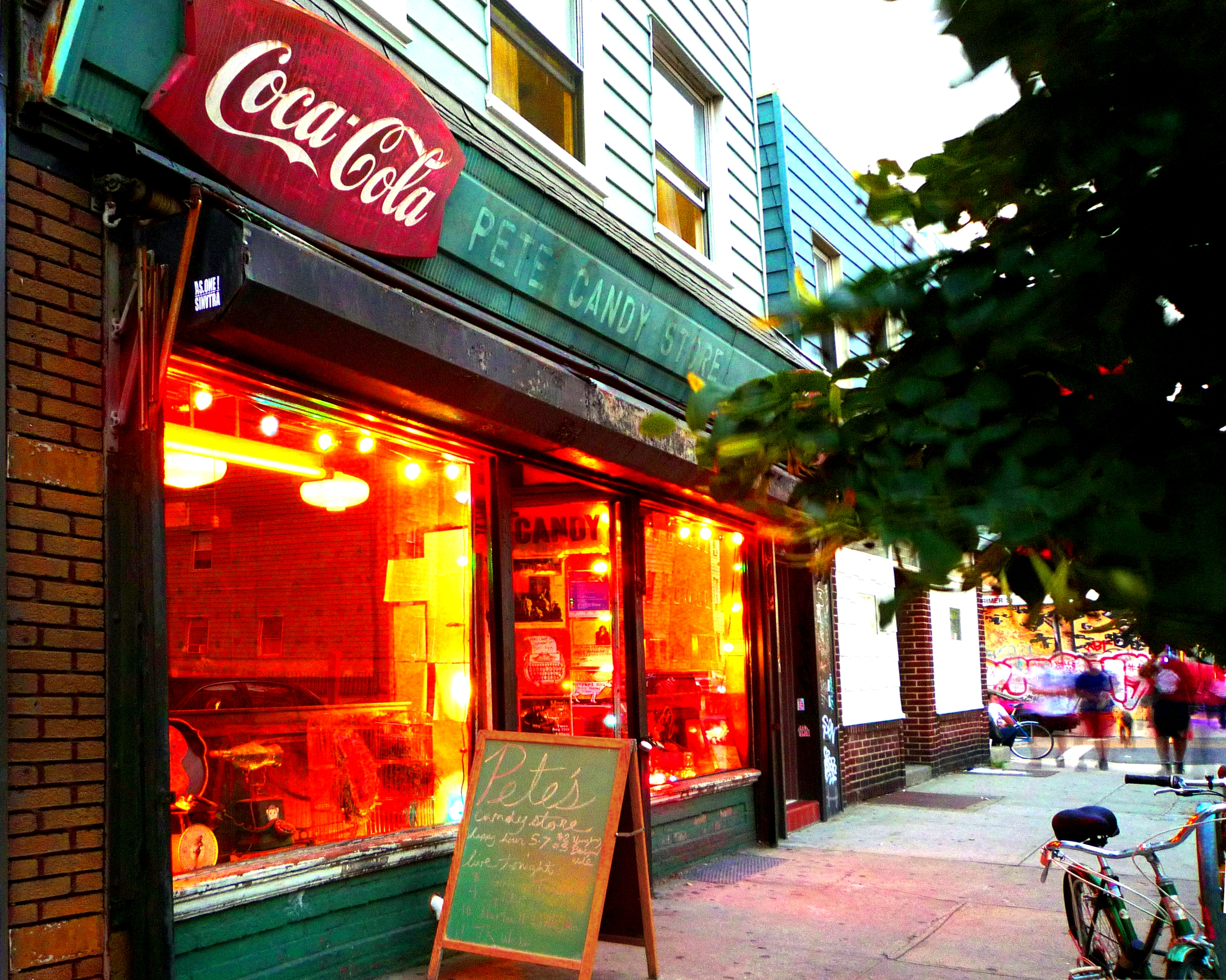 Pete's Candy Store, 709 Lorimer St, Brooklyn, NY 11211 in Williamsburg, Brooklyn, New York City